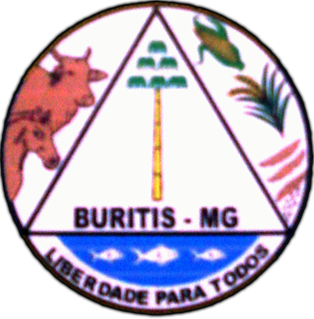 Coat of arms of the municipality of Buritis, in the Minas Gerais, Brazil.